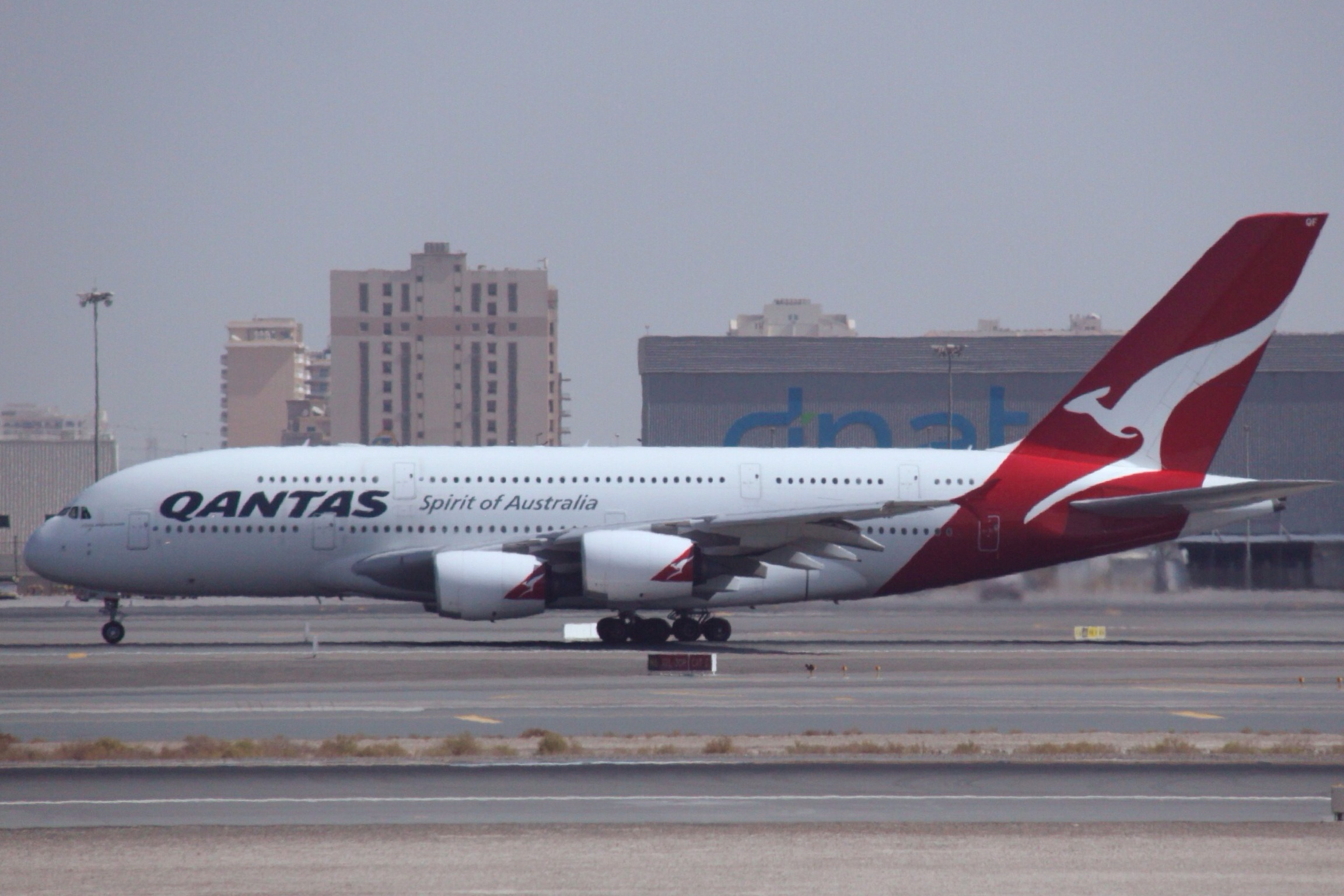 At Dubai International DXB